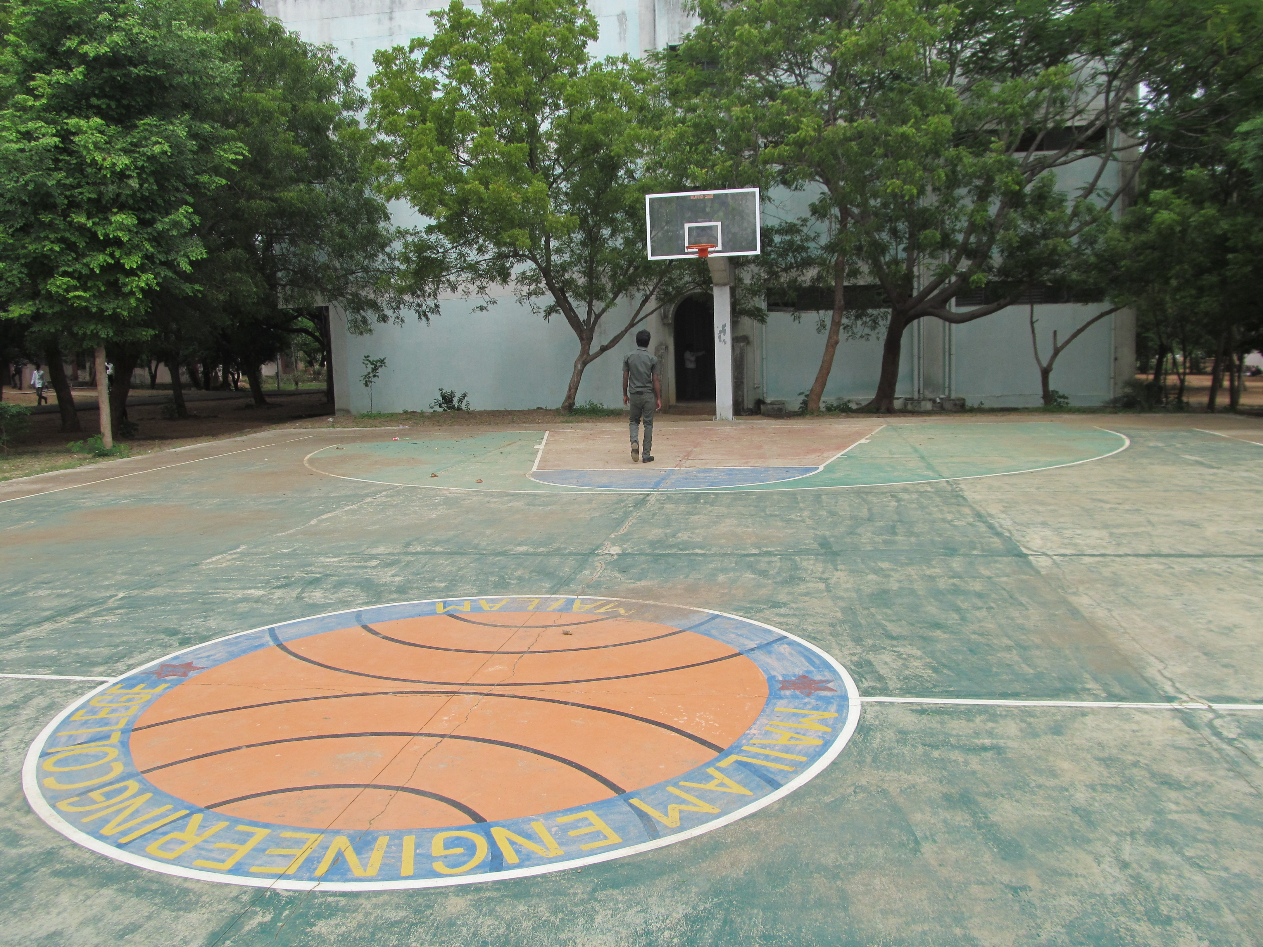 MEC BASKETBALL COURT